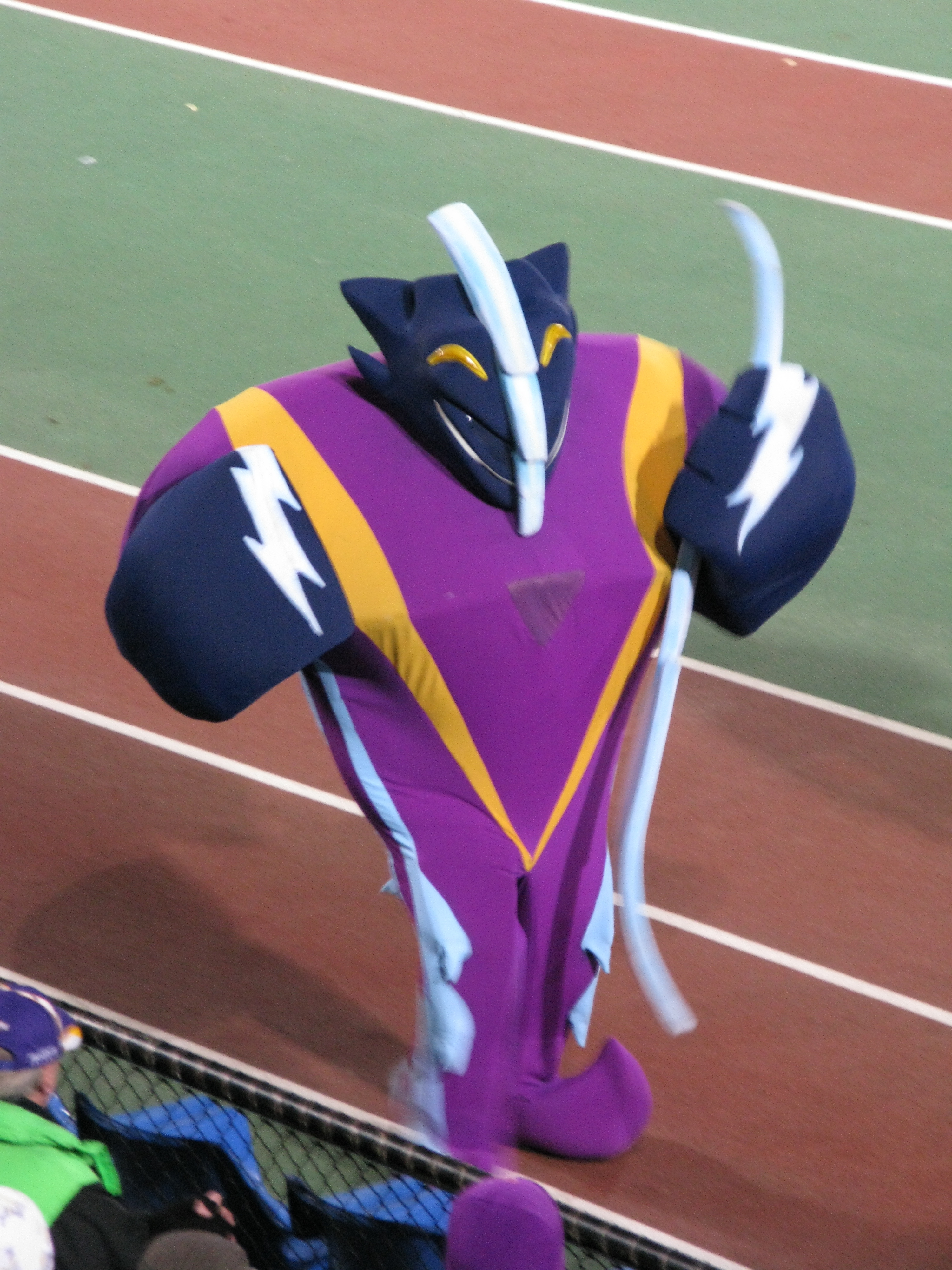 The Melbourne Storm (Rugby Team) mascot.